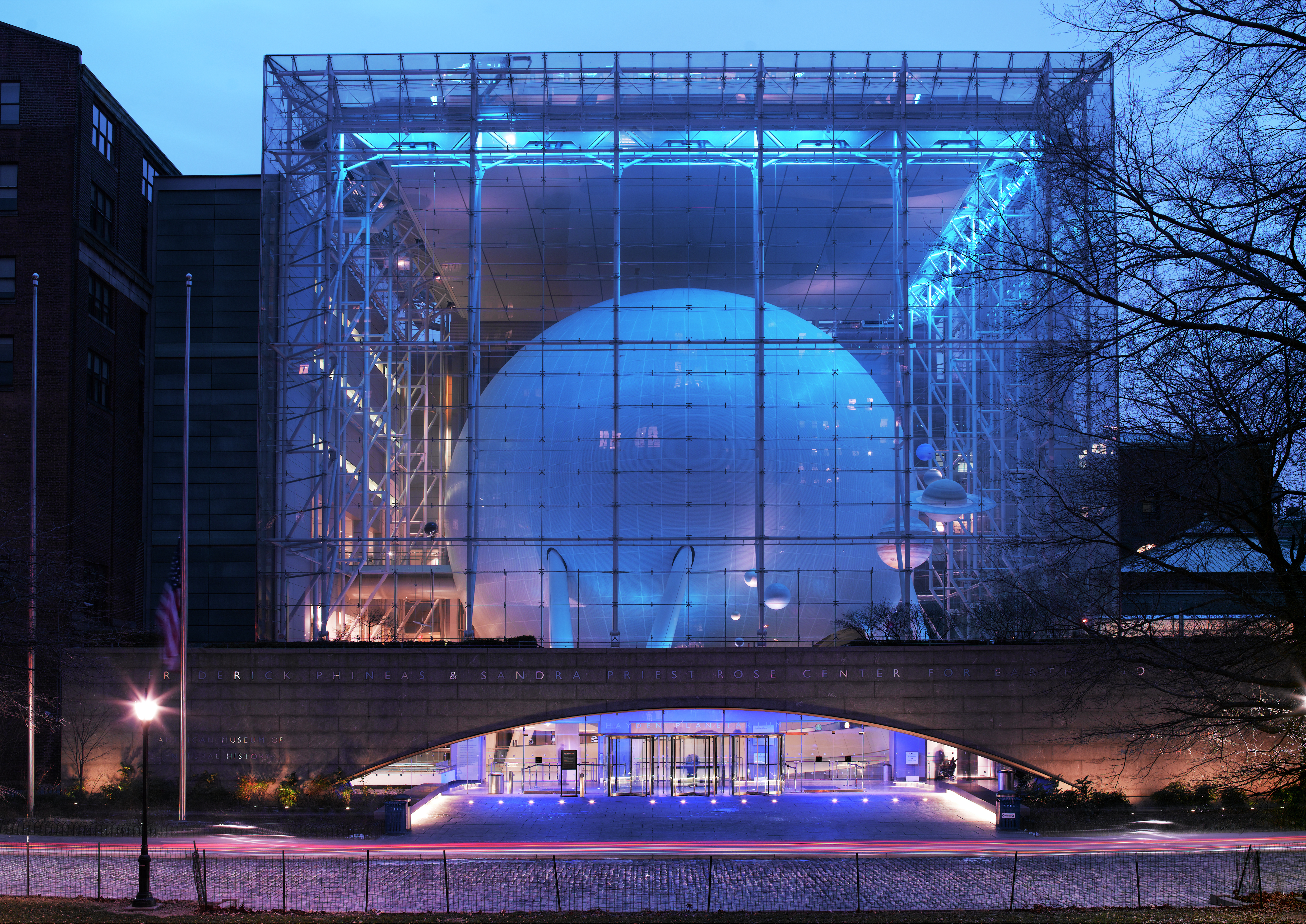 Rose Center for Earth and Space by Frederick Phineas and Sandra Priest, New York.